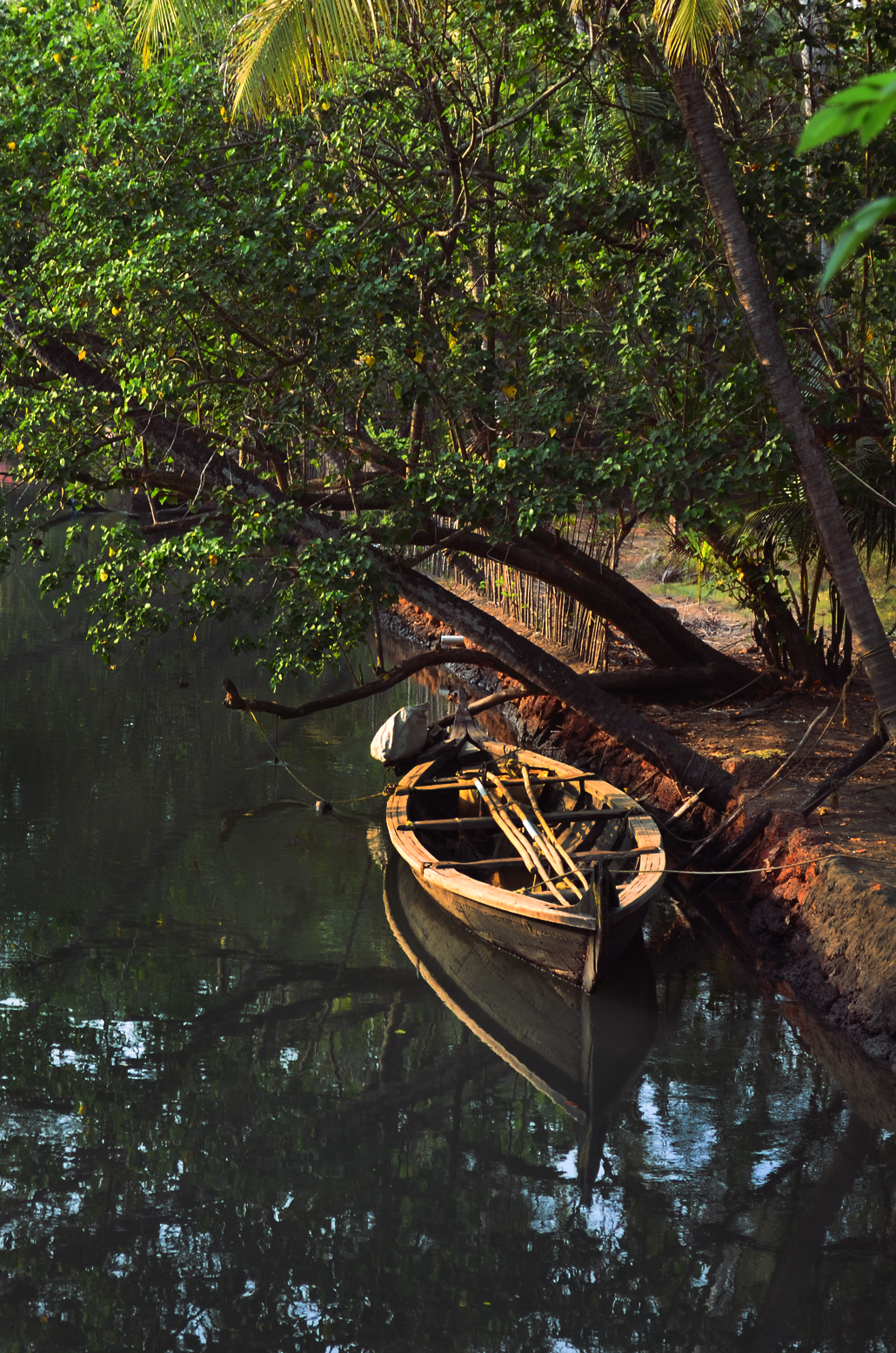 Photo of Azhikode Estuary